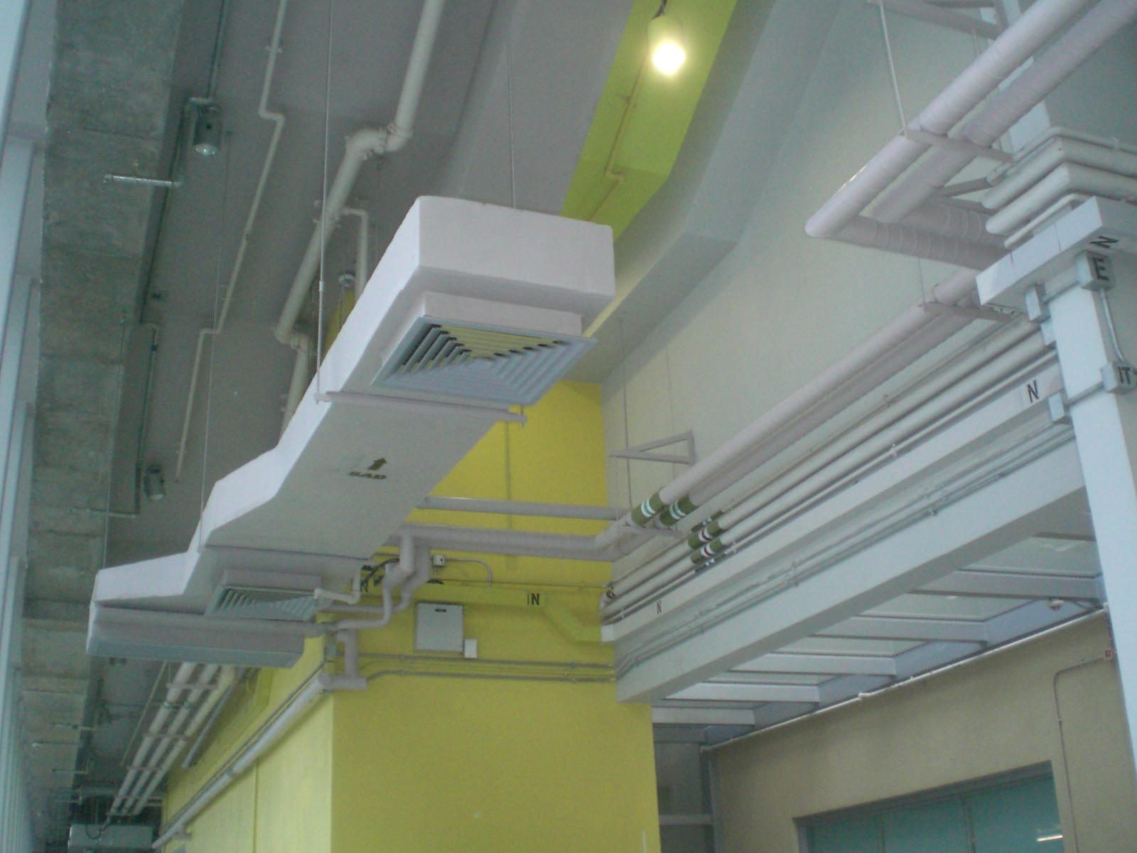 Y-Loft, Hong Kong, Centre for Youth Development (Youth Square)